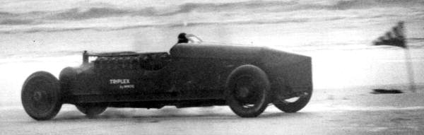 White Triplex land speed record car, being driven by Lee Bible (killed shortly afterwards) at Ormond Beach